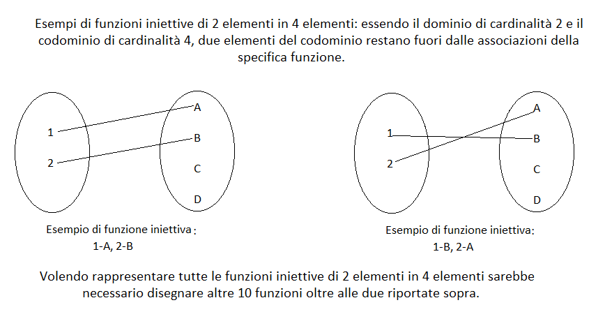 Injective functions of two elements to four elements.